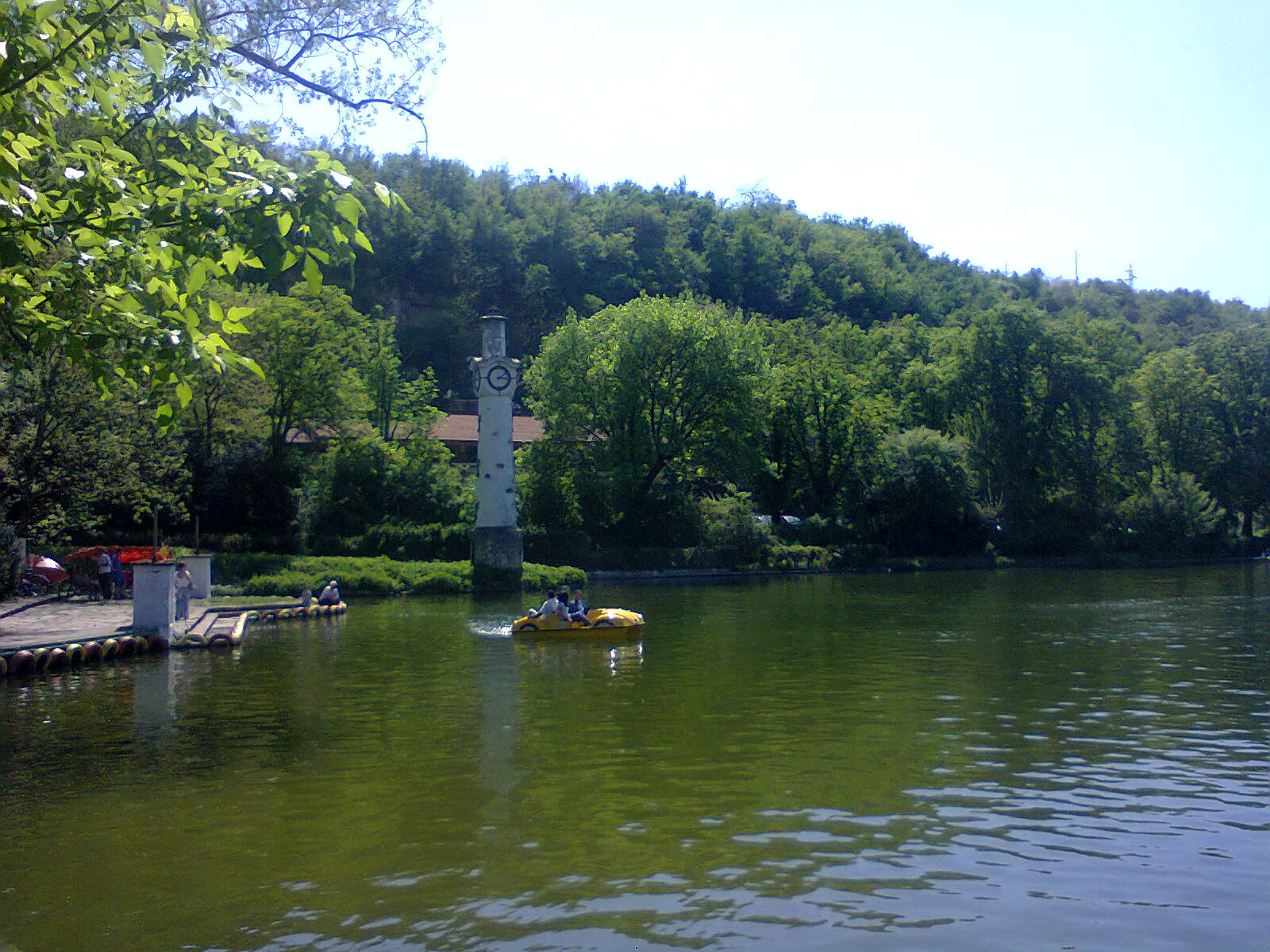 Kayluka lake and watch tower